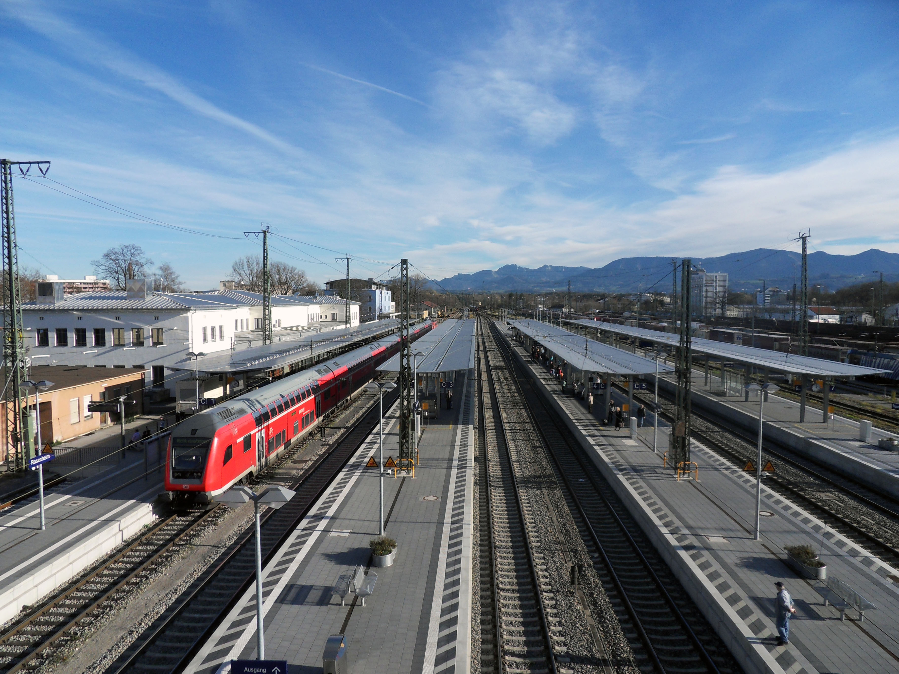 Trainstation Rosenheim